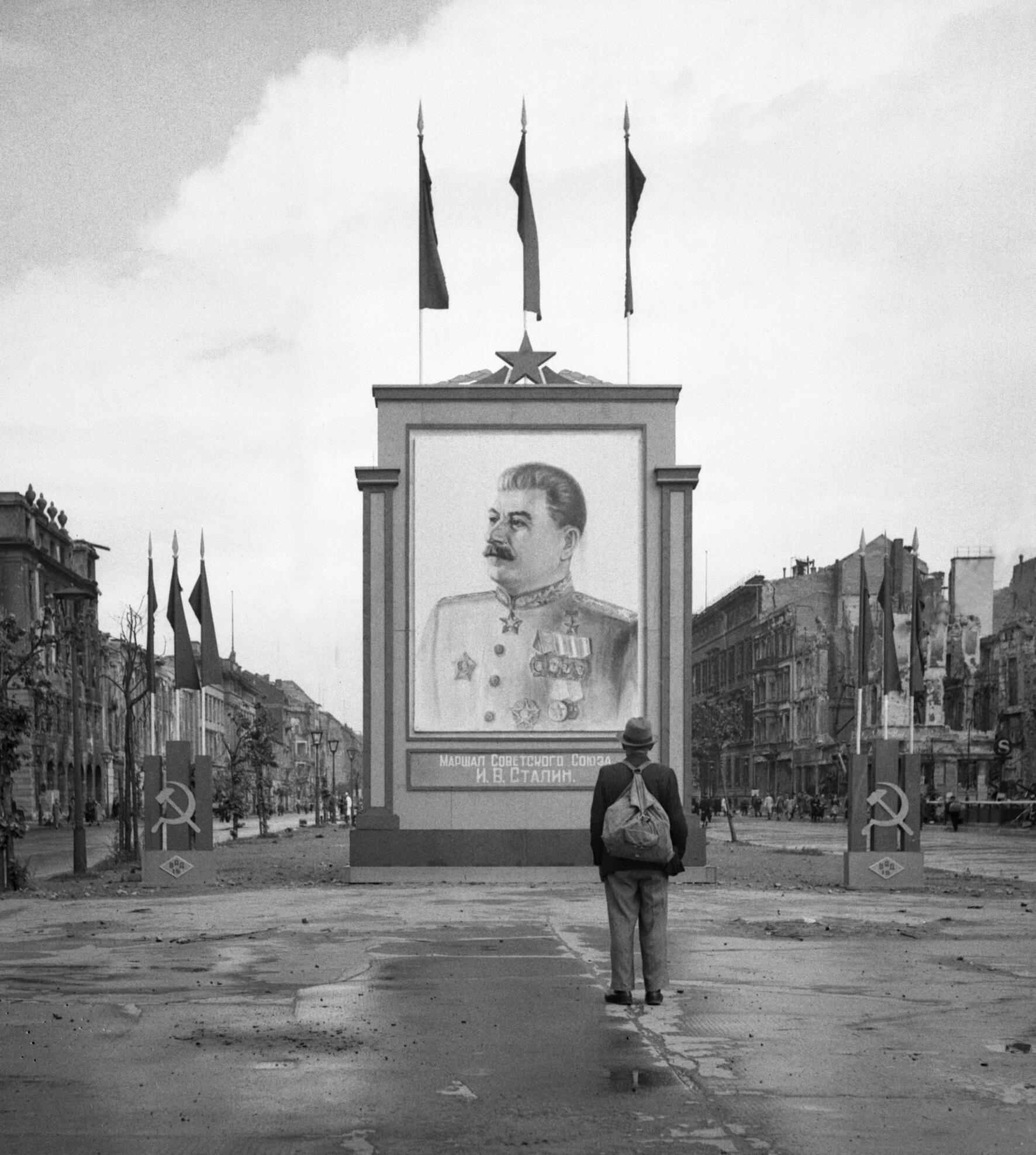 A German civilian looks at a large poster portrait of Stalin on the Unter-den-Linden in Berlin, 3 June 1945. A German civilian looks at a vast painting of Stalin on the Unter-den-Linden in Berlin.